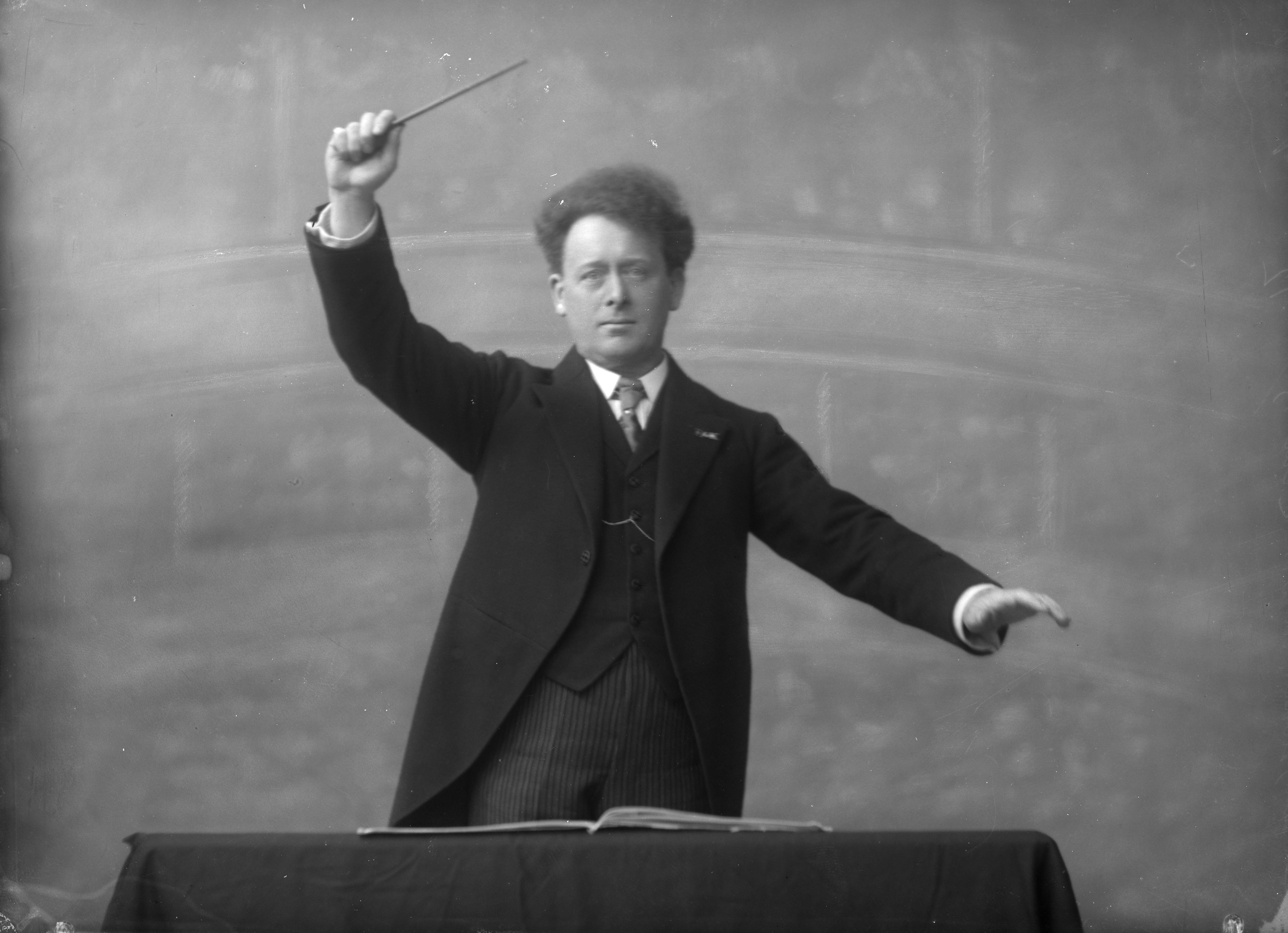 Photograph of by Jacob Merkelbach (1877-1942)